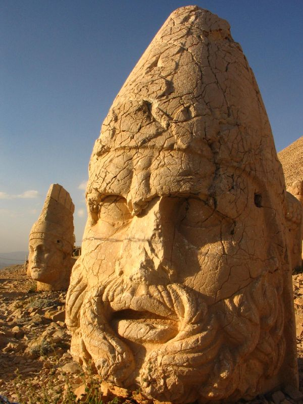 Mount Nemrut